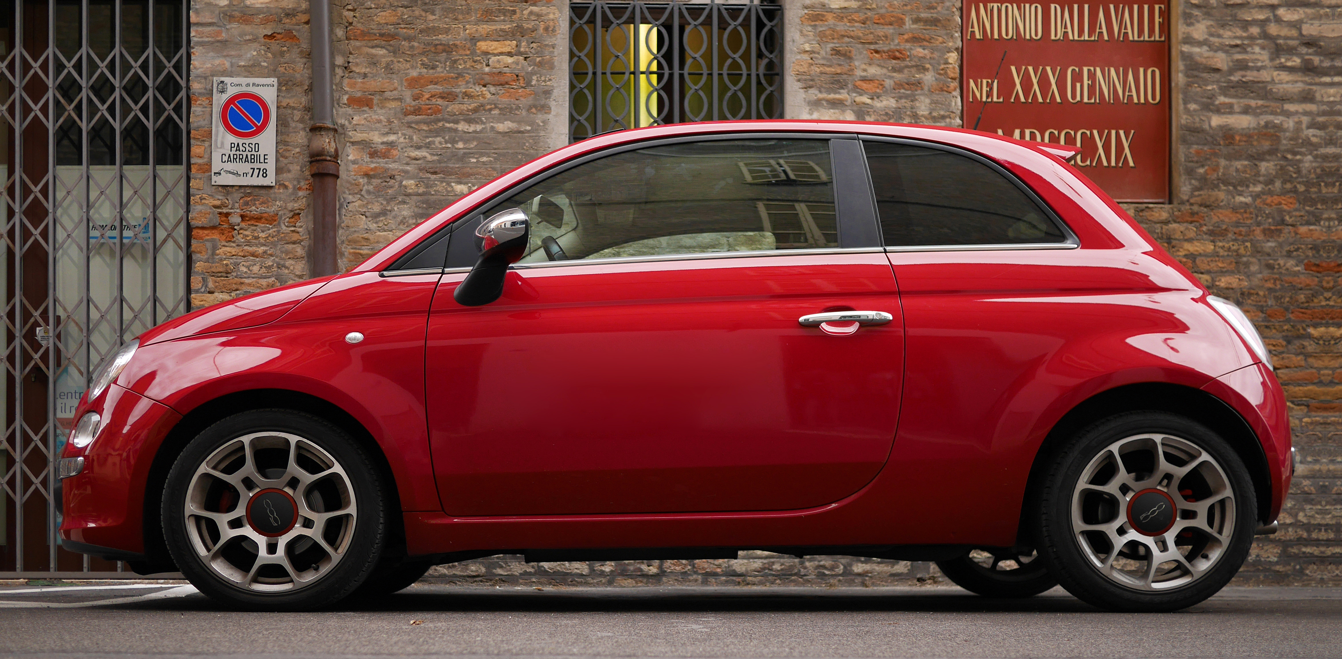 Fiat 500 in Emilia-Romagna, Italy.